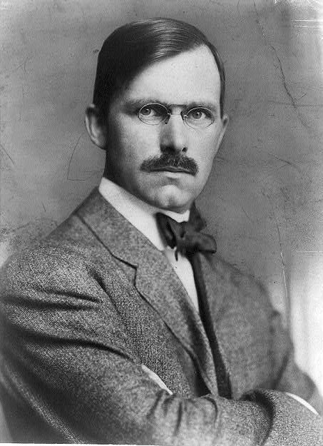 TITLE: Ray Stannard Baker (aka David Grayson), half-length portrait, wearing pince-nez glasses. CALL NUMBER: BIOG FILE [item] [P&P] REPRODUCTION NUMBER: LC-USZ62-36754 (b&w film copy neg.) No known restrictions on publication. SUMMARY: Photo, tinted and retouched. MEDIUM: 1 photographic print. CREATED/PUBLISHED: [no date recorded on caption card] NOTES: Title and other information transcribed from unverified, old caption card data and item.